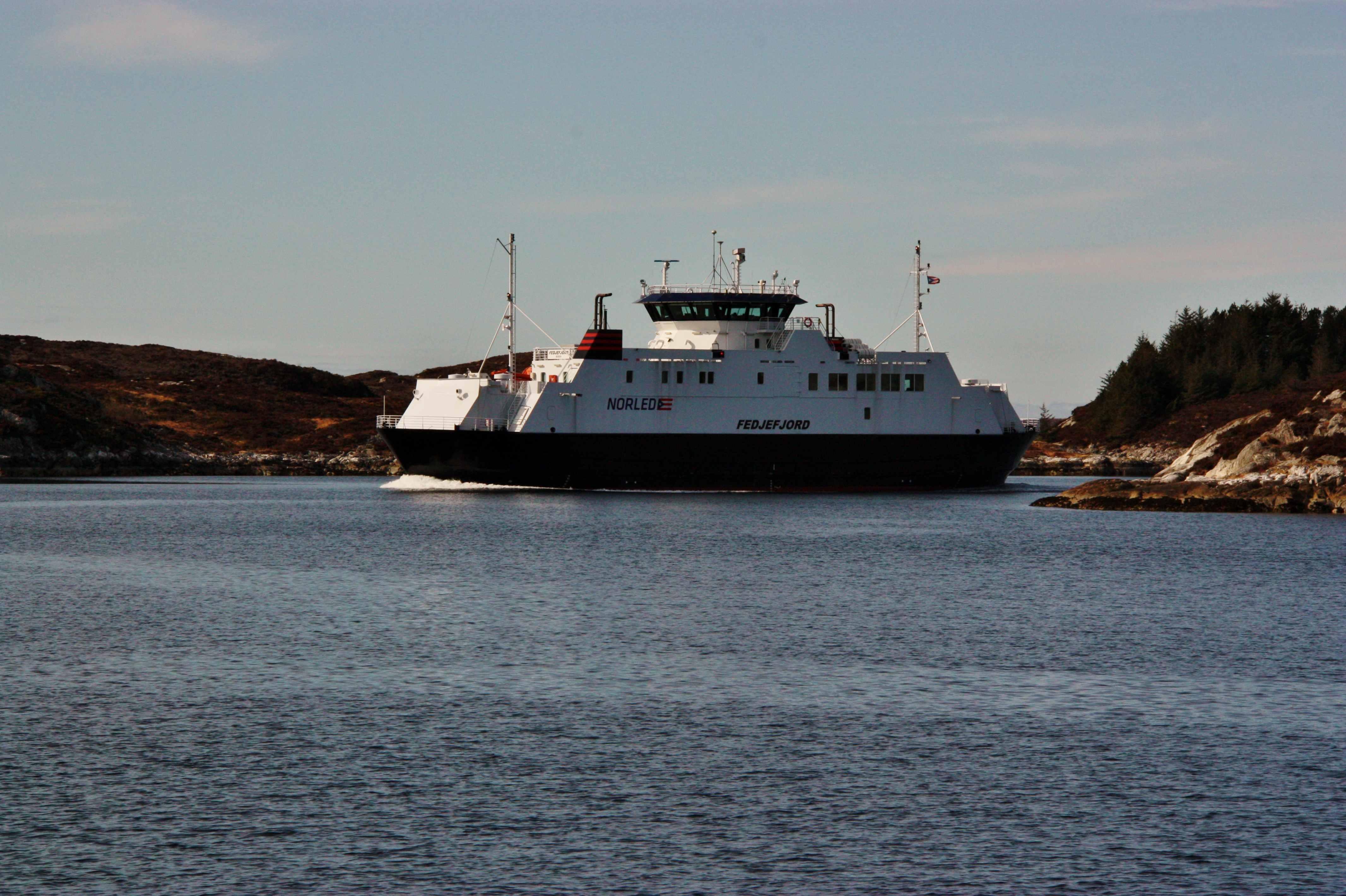 MF Fedjefjord at Sævrøy in Austrheim.